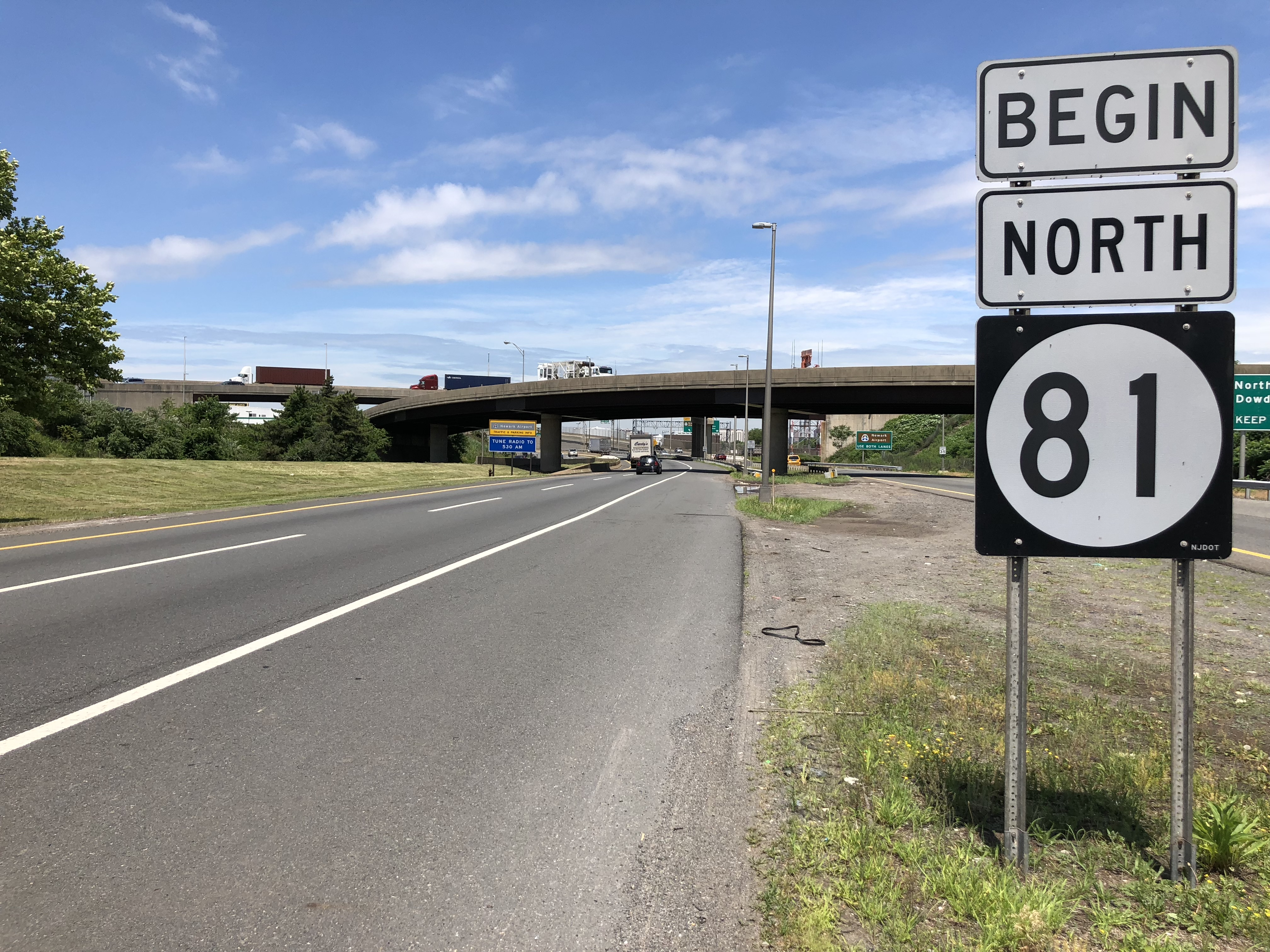 View north along New Jersey State Route 81 just north of Interstate 95 (New Jersey Turnpike) in Elizabeth, Union County, New Jersey